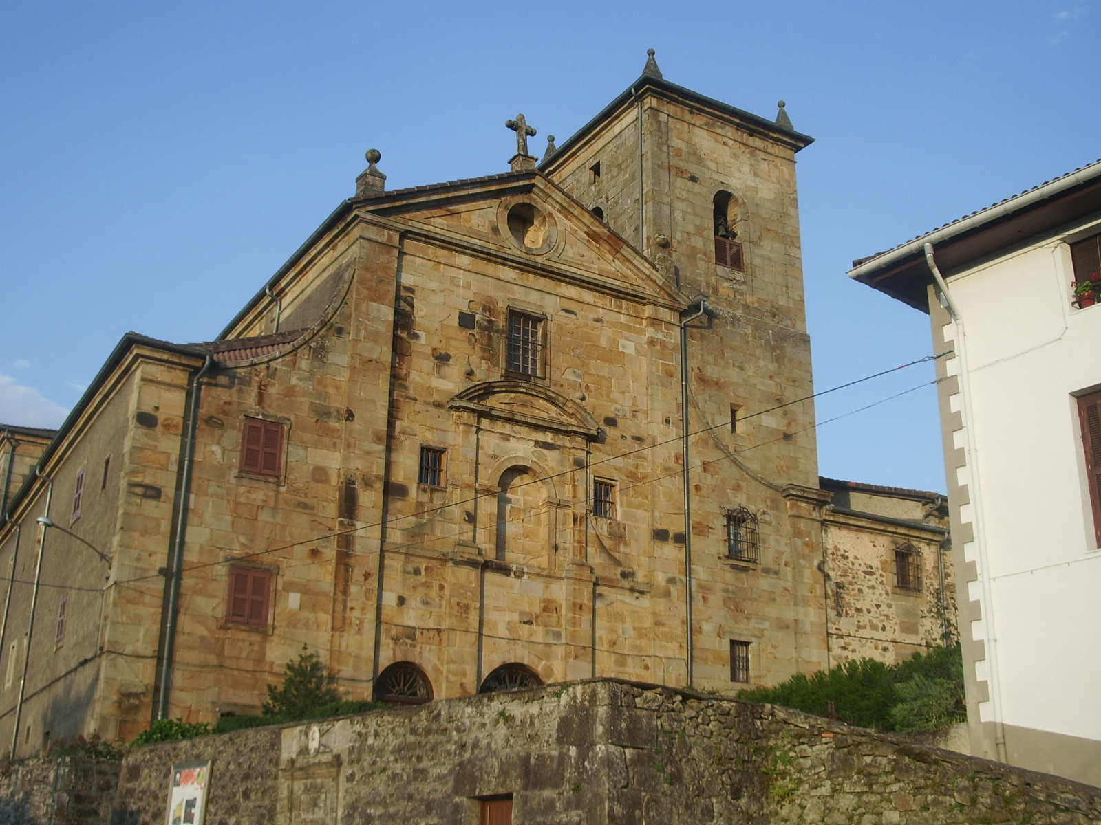 Sortzez Garbia monastery facade, Segura (Guipuscoa, Basque Country)